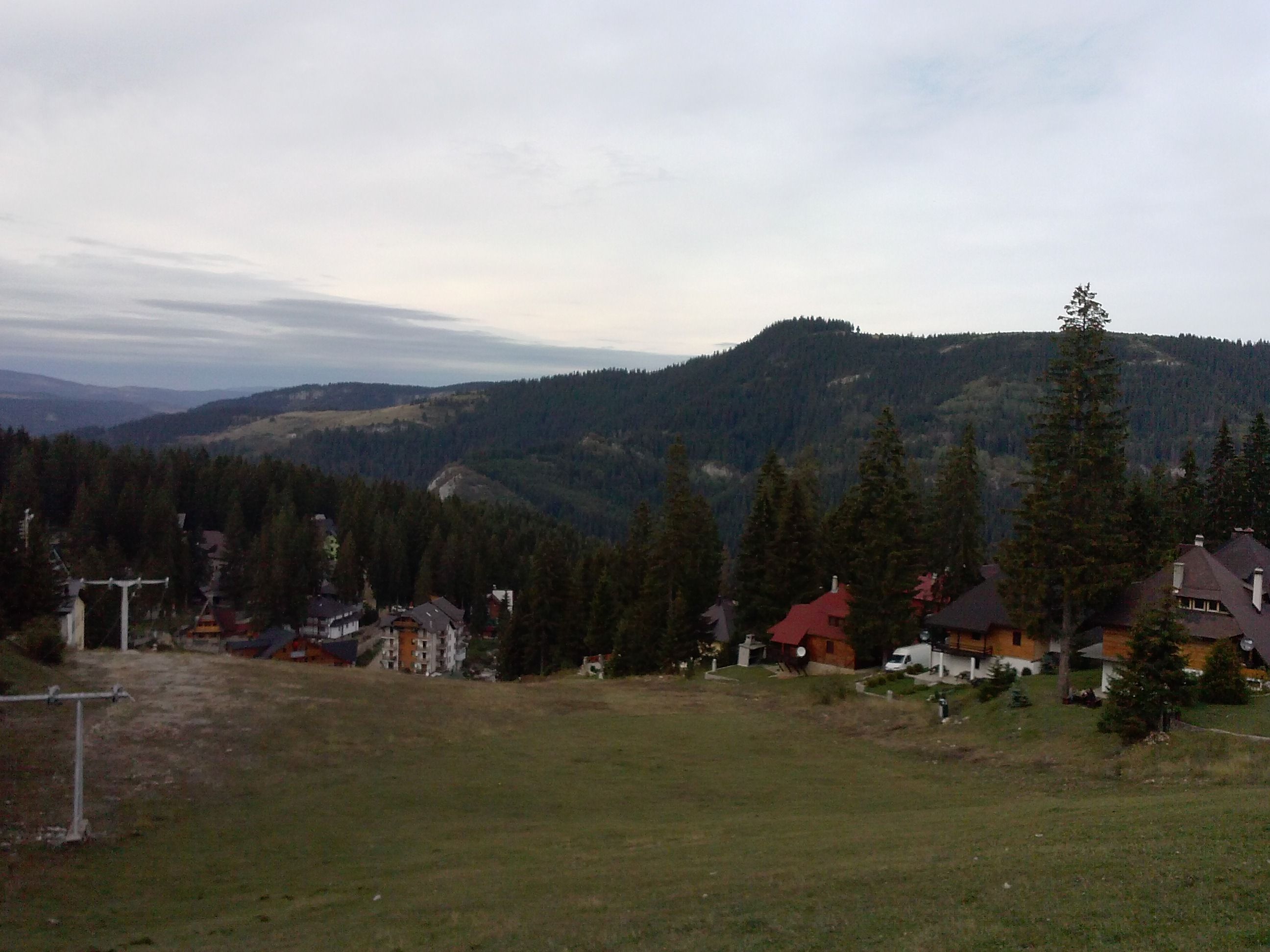 Babanovac sky track with sky-lifts and hotels at the end.